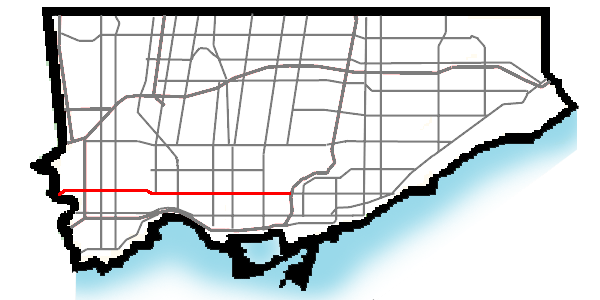 map of Bloor Street